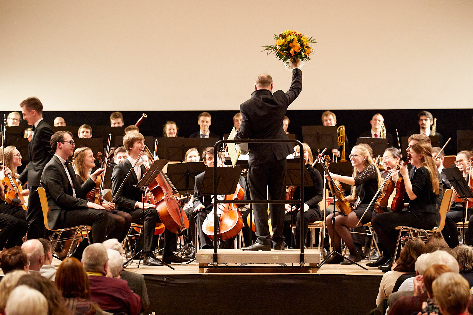 Herbert Görtz conducting the Aachener Studentenorchester